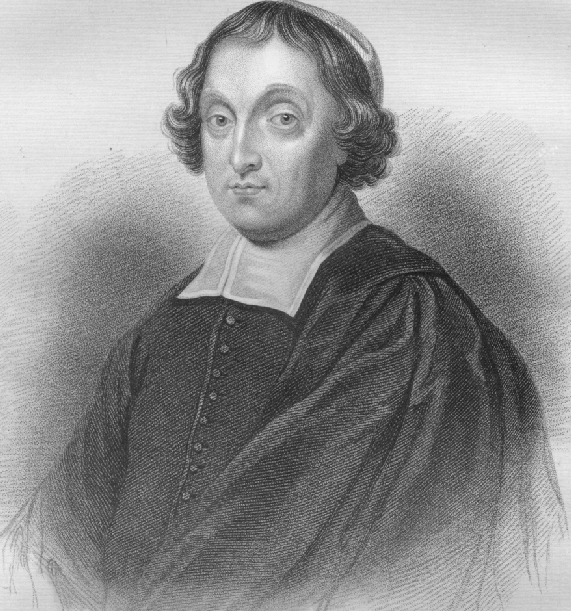 Cardinal David Beaton (c. 1494 – 29 May 1546) was Archbishop of St Andrews and the last Scottish Cardinal prior to the Reformation